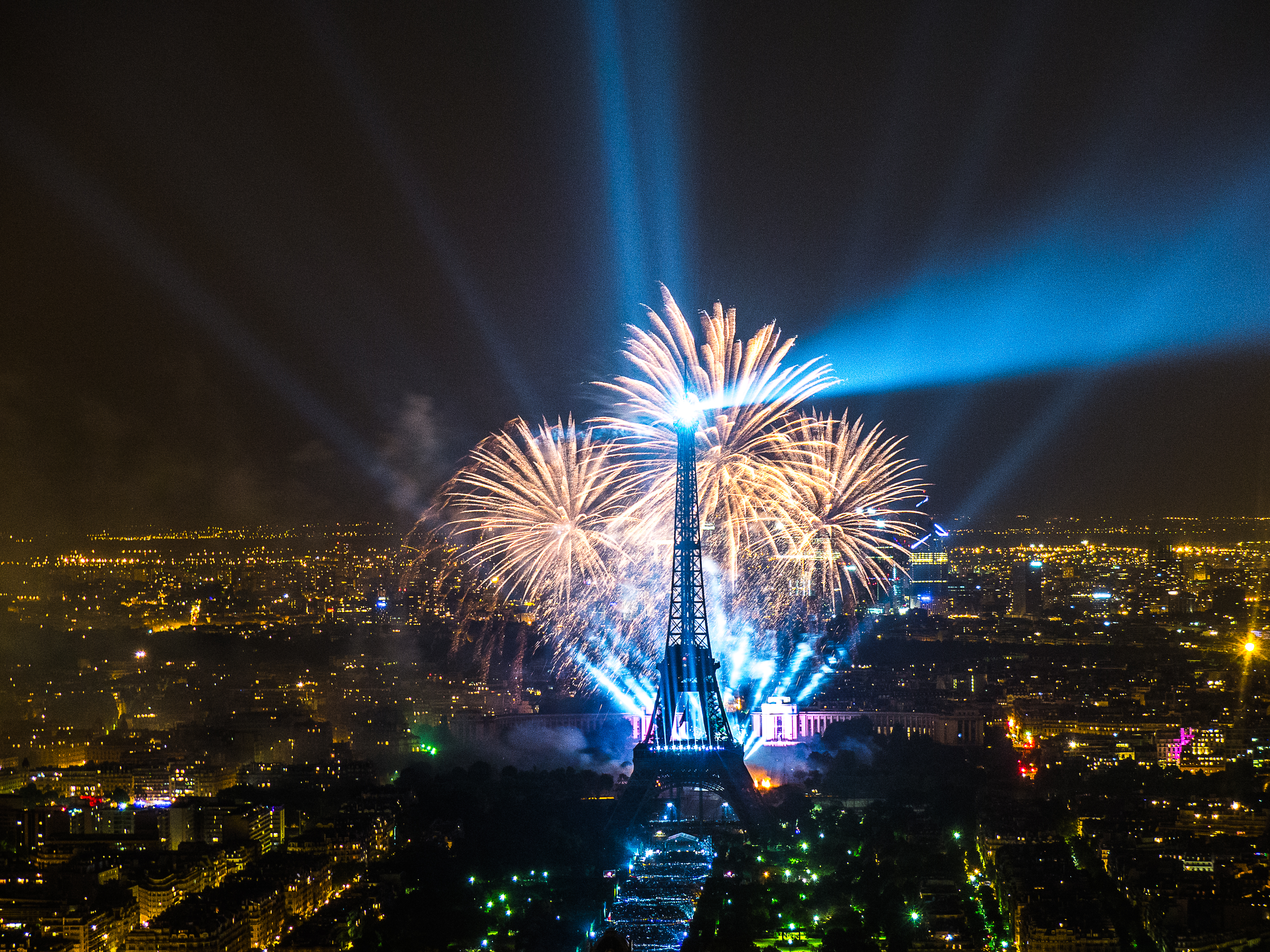 Fireworks on Eiffel Tower as seen from the Montparnasse Tower, July 14, 2013.